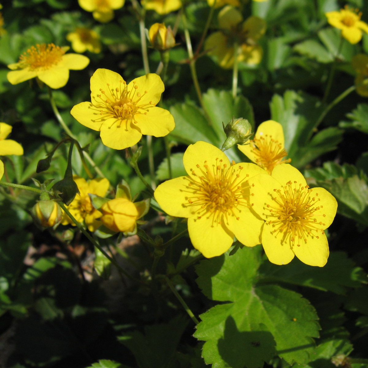 Waldsteinia ternata flowers, plant cultivated in Wrocław University Botanical Garden, Wrocław, Poland.